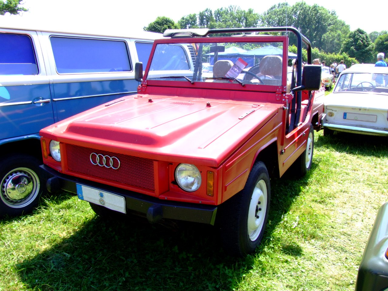 Summary Name: VW Iltis (with Fake-Audi-emblem) Quelle: selbst fotografiert, 06/2006 Fotograf: Späth Chr. Licensing